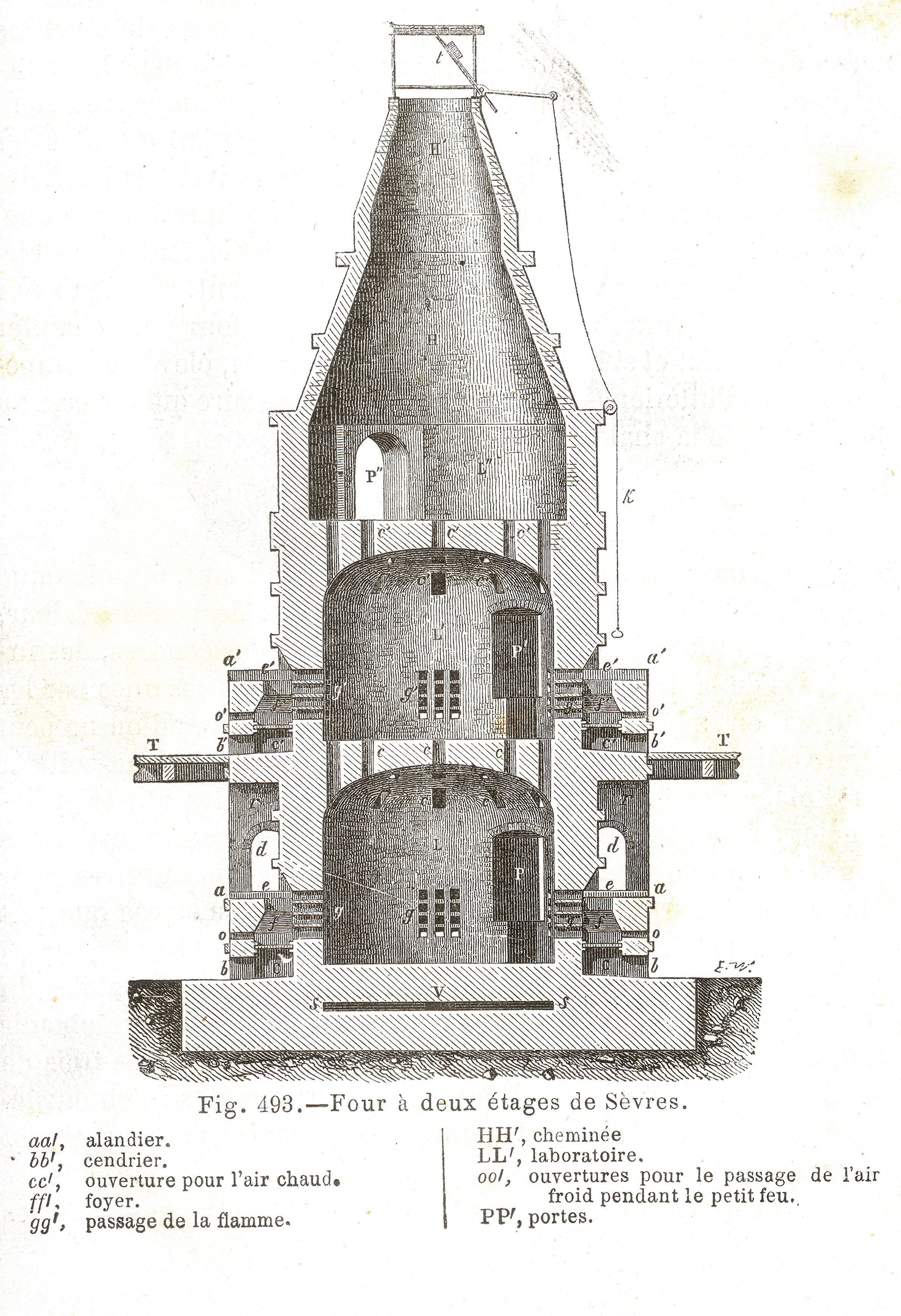 Pottery furnace in Sèvres (France). Picture scanned in : Dictionnaire de chimie industriel (Dictionary of industrial chemistry) (Barreswil, A. Girard) 1864, tome 3, page 306.